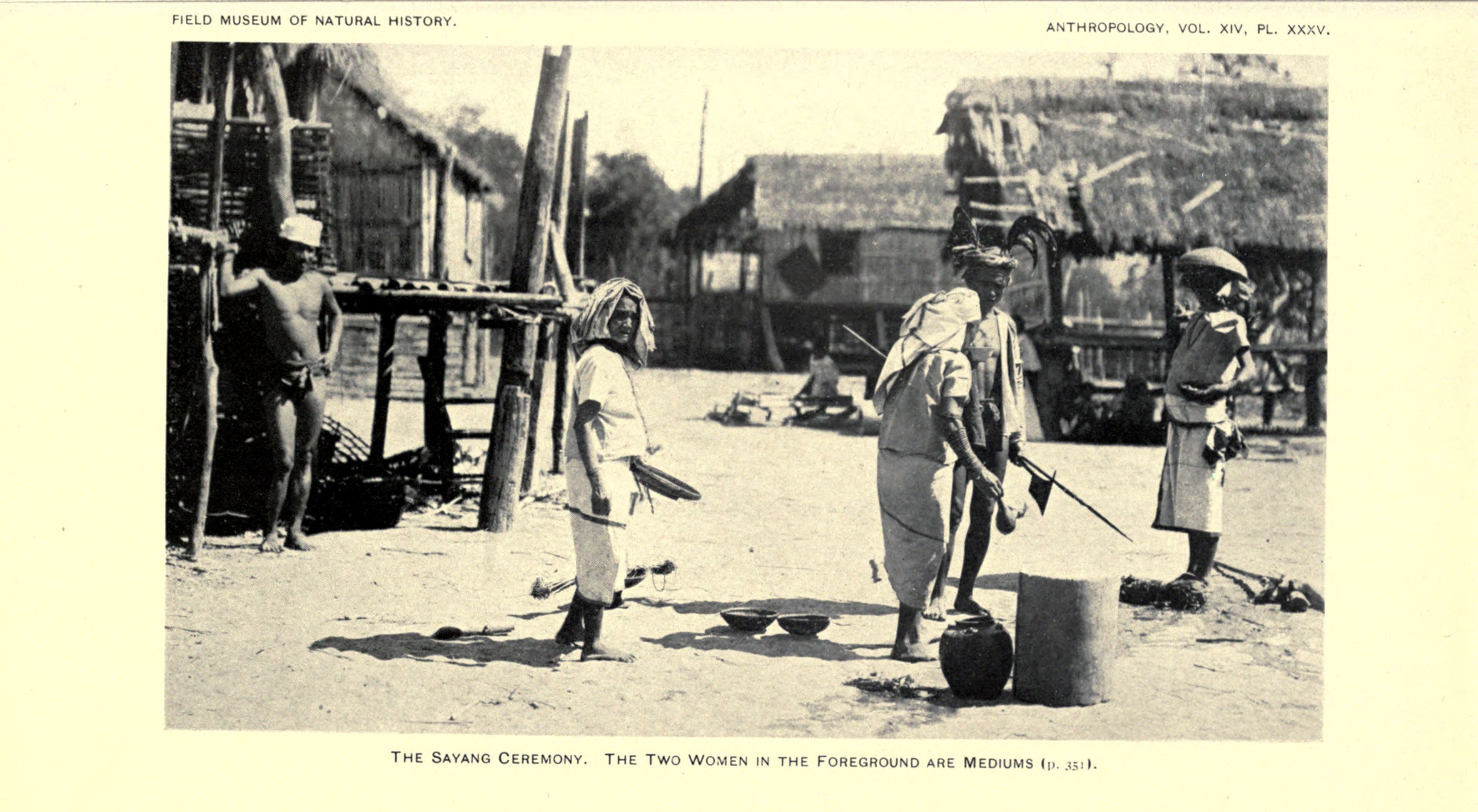 Sayang ceremony among the Itneg people. The two women in the foreground are shamans (alopogan) (1922, Philippines)